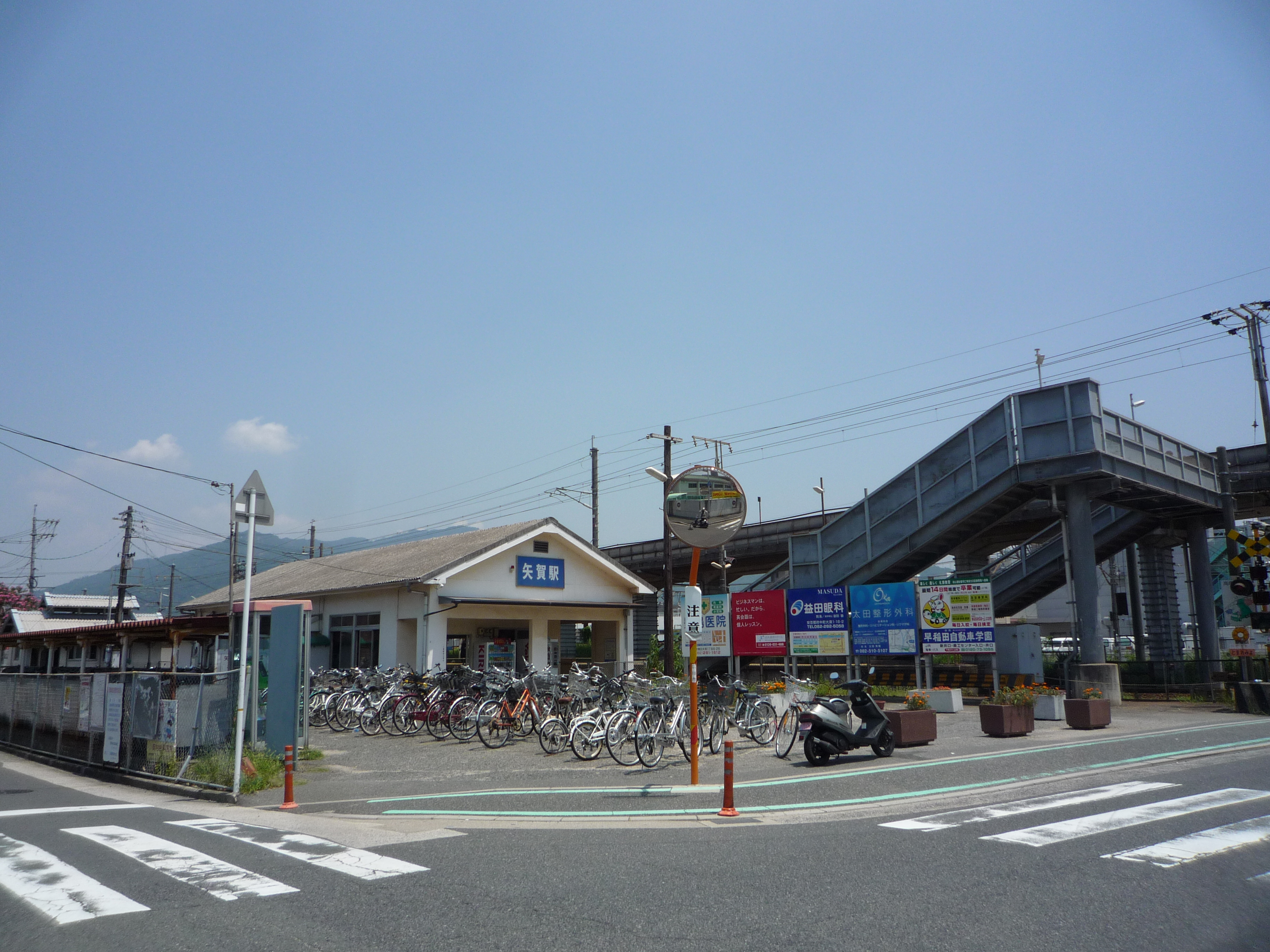 Yaga Station, Hiroshima, Japan